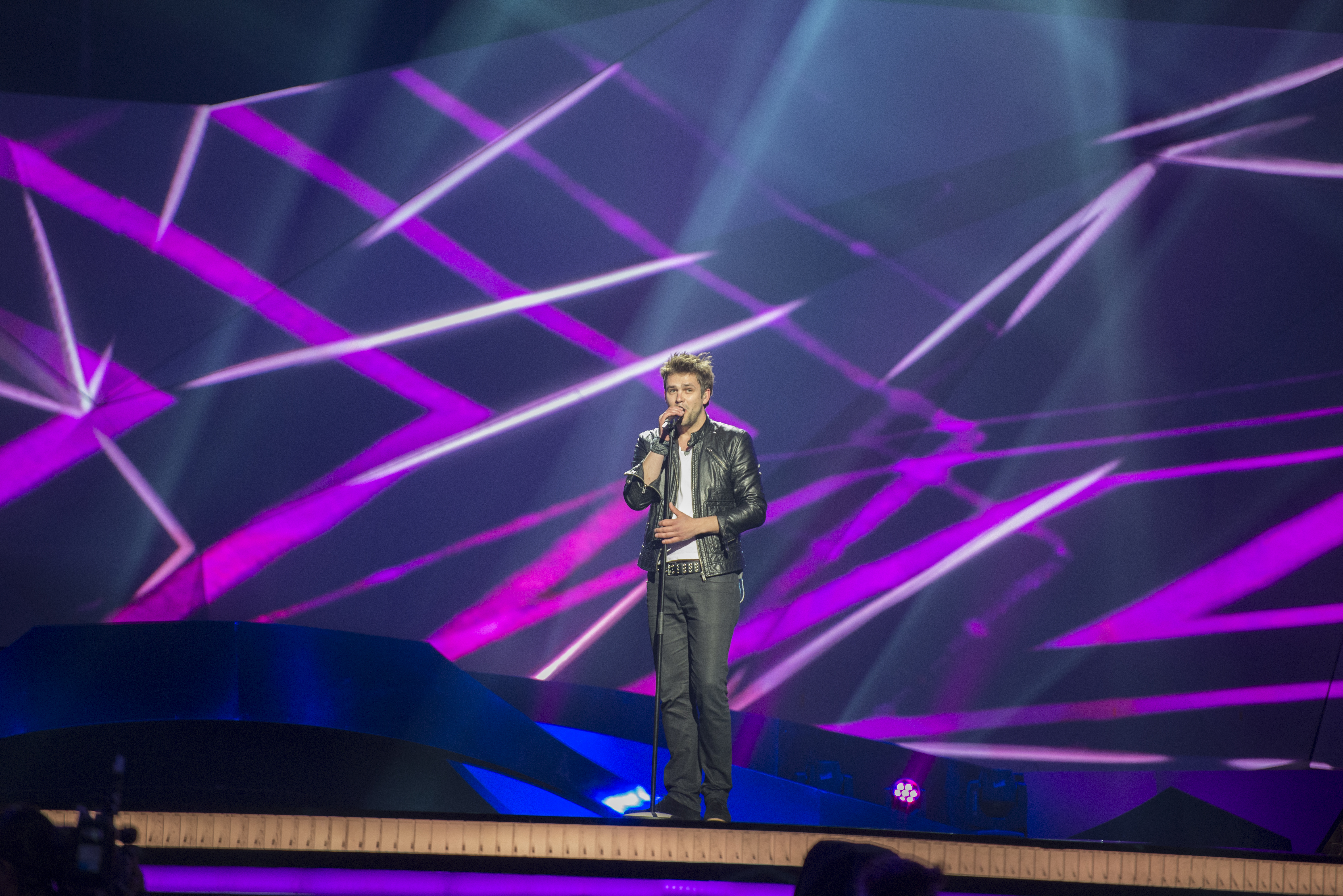 Andrius Pojavis representing Lithuania with the song "Something" during the first dress rehearsal of the first semi final of the Eurovision Song Contest 2013 Malmö. (Help translate this text)